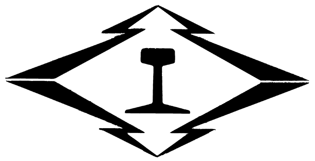 Logo mark of hanshin railway black color